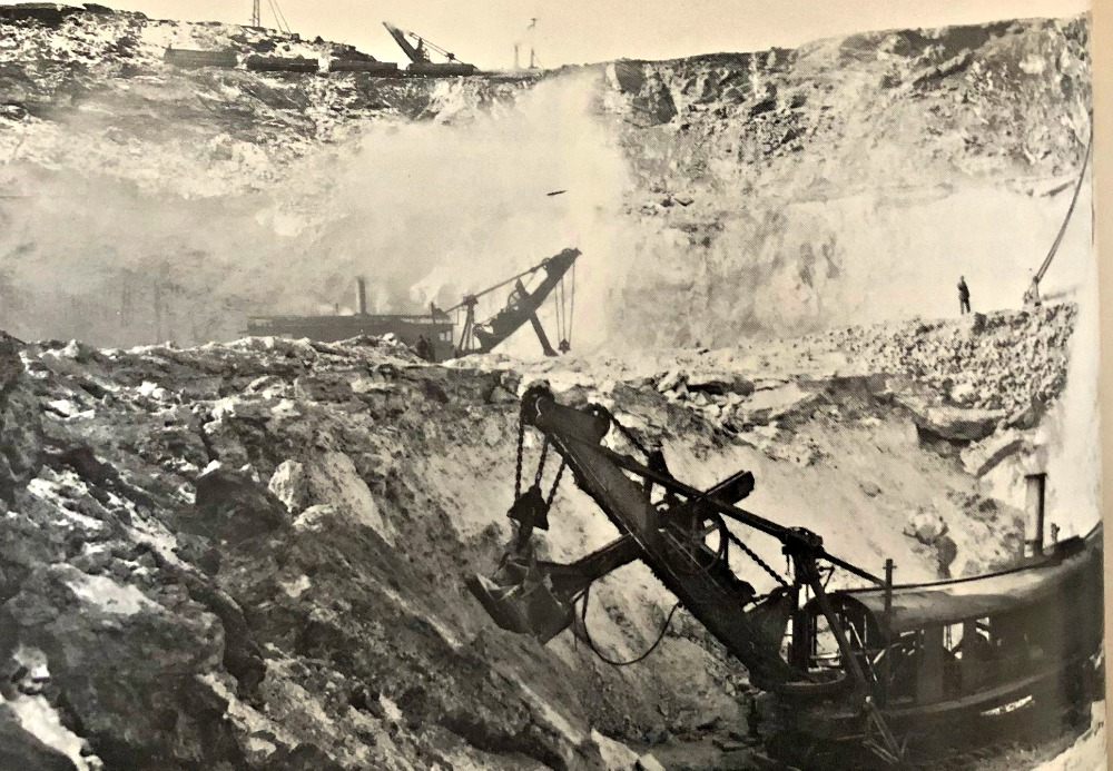 Three-ton steam shovel used in Liberty pit in Ruth, Nevada, 1910.